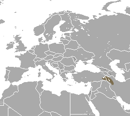 Pere David's Mole (Talpa davidiana) range